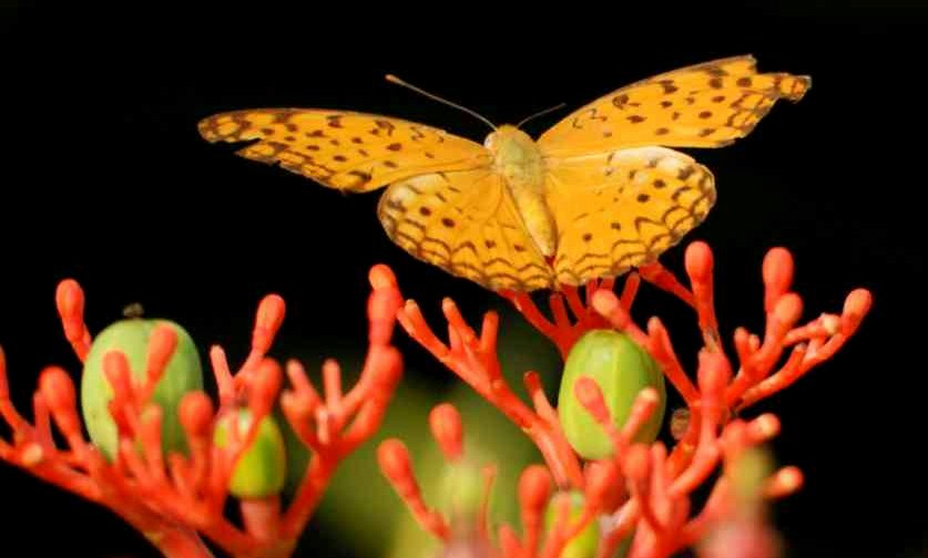 Common Leopard (চিতা)Kolkata, West Bengal,India